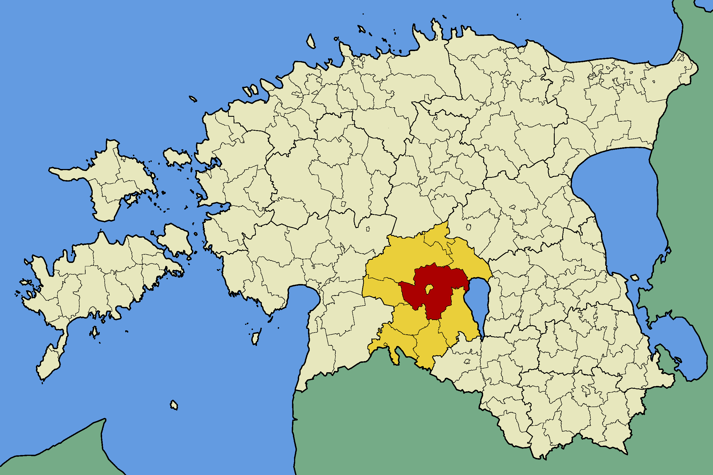 Map of Estonia with borders of municipalities (parishes). Viljandi county and Viljandi municipality emphasized.